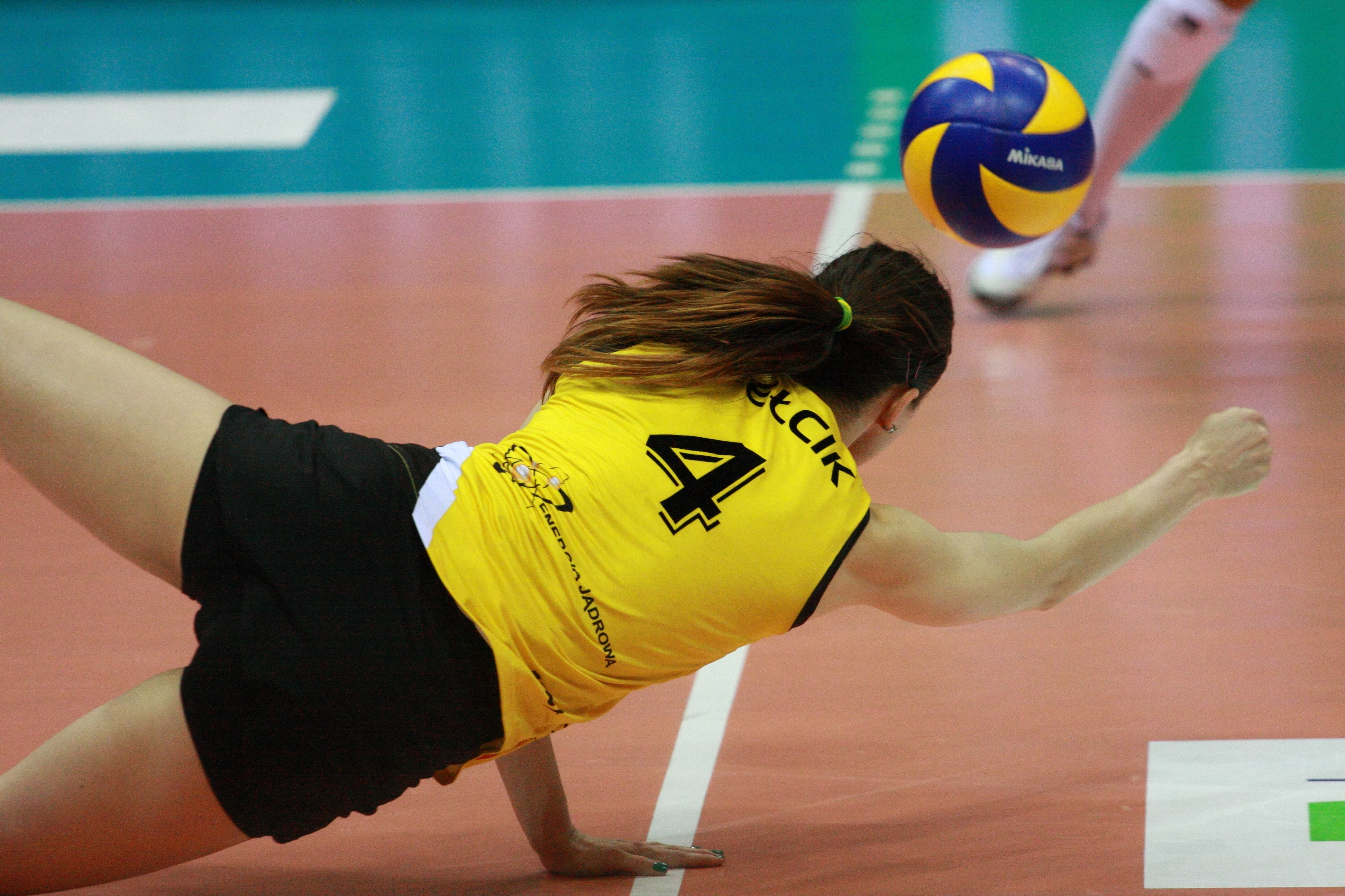 Atom Trefl Sopot vs MKS Dąbrowa